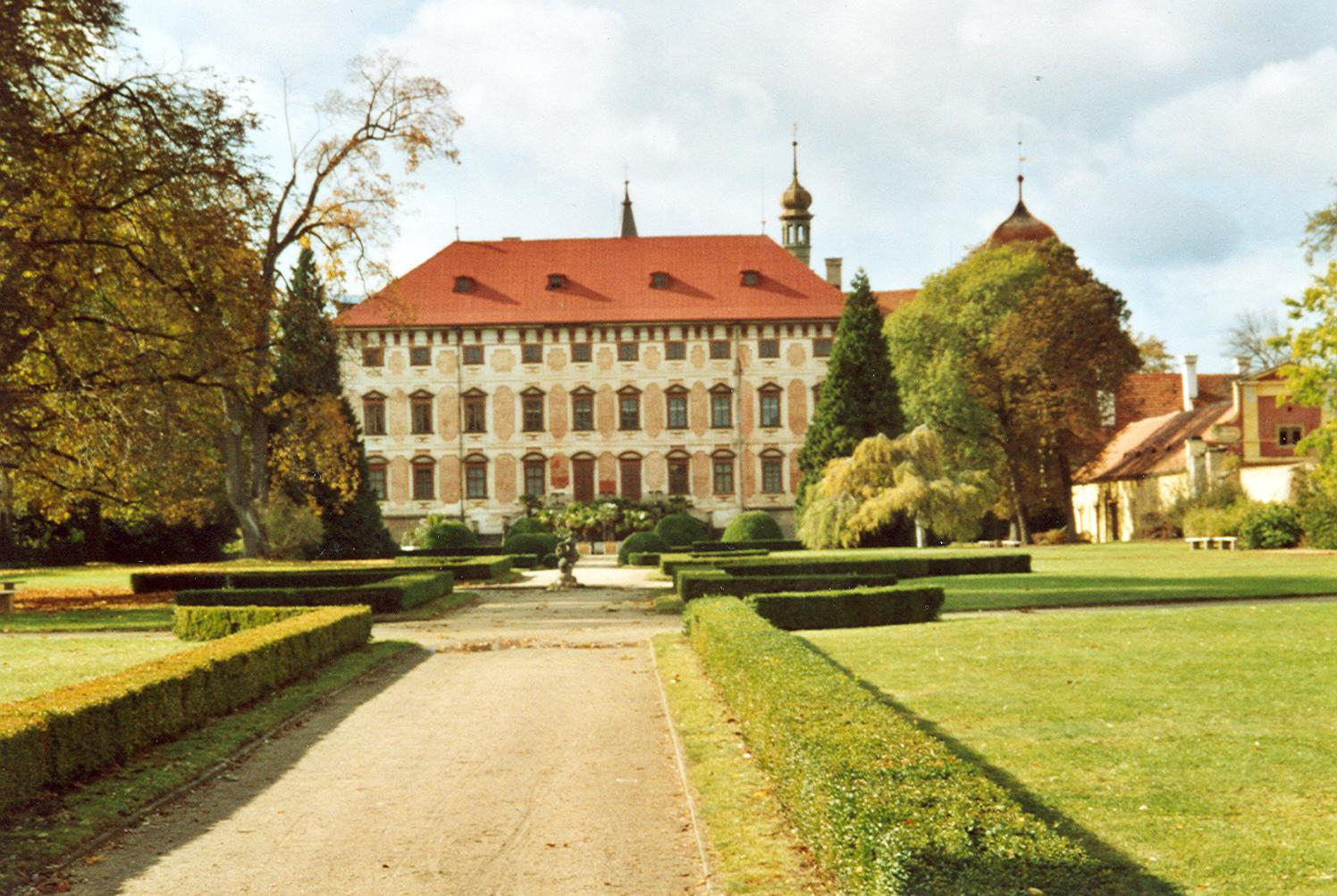 Libochovice Castle, Czech Republic.